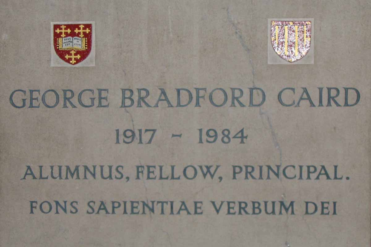 Inscription on a column in the chapel of Mansfield College, Oxford, in memory of George Caird